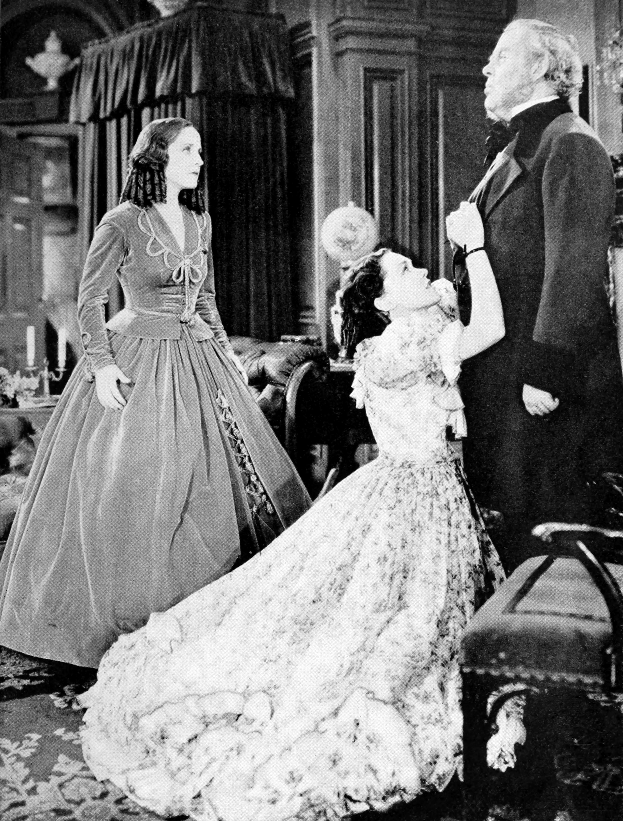 Promotional photograph of (from left) Norma Shearer, Maureen O'Sullivan and Charles Laughton in the film The Barretts of Wimpole Street